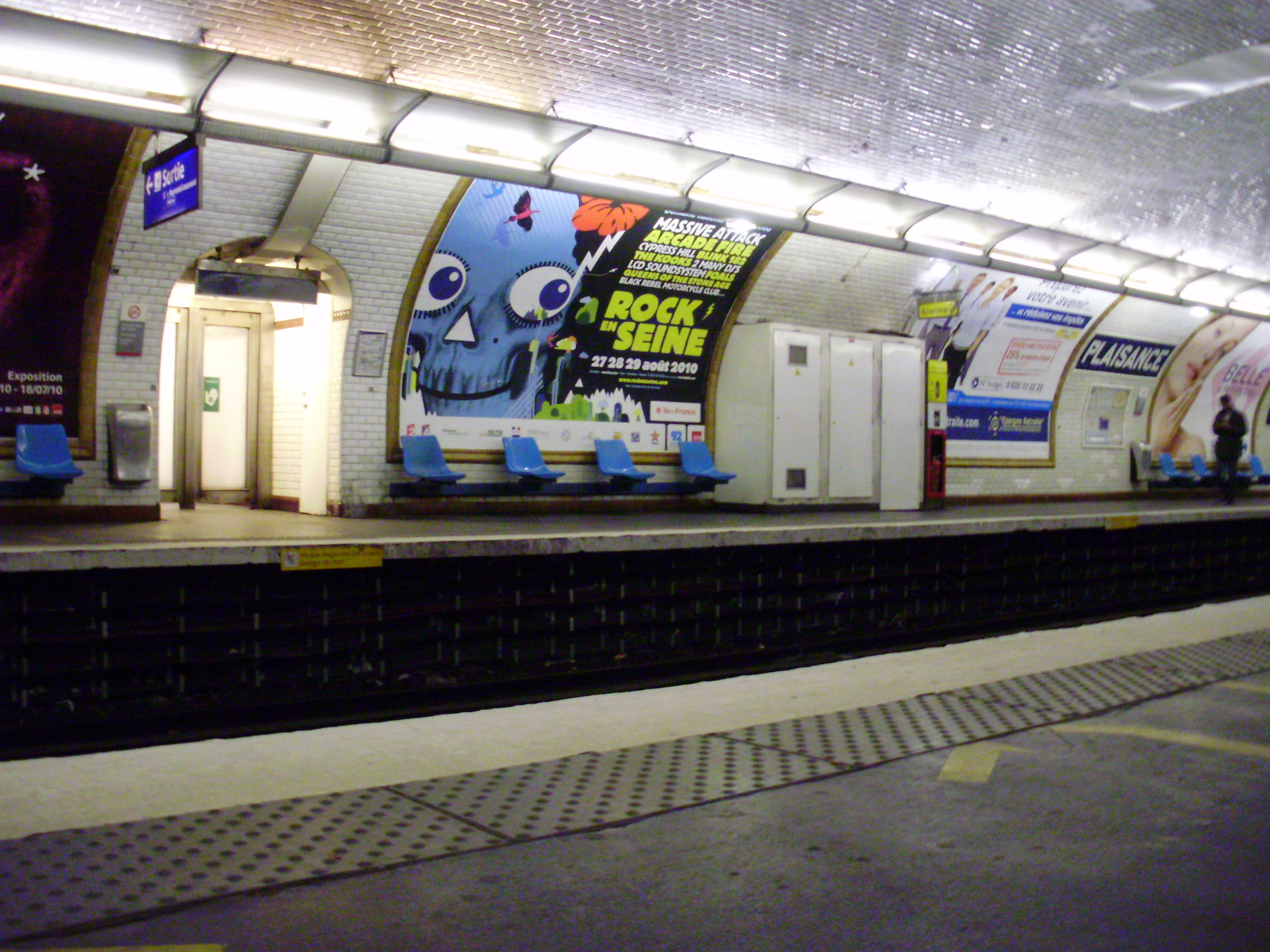 Plaisance station of Paris Métro - platform, Paris, France